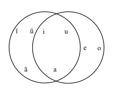 This is one of two images for showing the difference between phonology and phonetics. The other image is Image:Phonetic_Diagram_of_modern_Arabic_and_Hebrew_vowels.png. The circles contain the vowel phonemes of Standard Arabic (left) and Israeli Hebrew (right). Those are the distinctions that must be made for proper comprehension, the bare essentials of pronunciation. Of these, the long-vowel phonemes (ā, ī, ū) are unique to Arabic and the mid-vowel phonemes (e, o) are unique to Hebrew, while short a, i and u exist in both. I made the images with the GIMP, version 2.2.8. An SVG version would obviously be better, but I am not sure MediaWiki supports the correct display of SVG with Unicode characters. If you know, by all means create SVG versions to replace these PNG images.